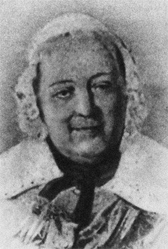 Helena Pavlovna Fadeeva, grandmother of Helena Petrovna Blavatsky